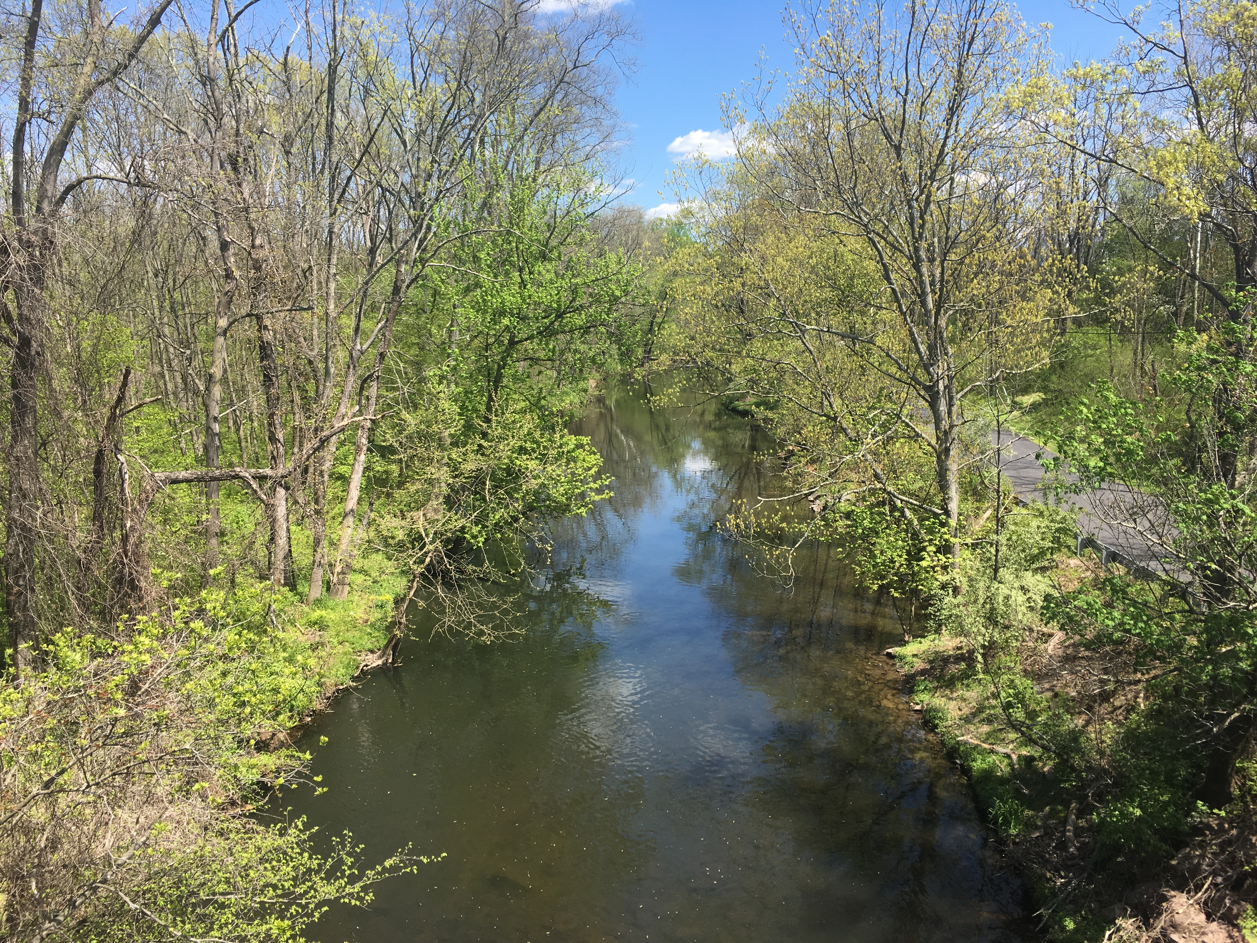 The Little Neshaminy Creek east of the Pennsylvania Route 263 (York Road) bridge in Warwick Township, Pennsylvania